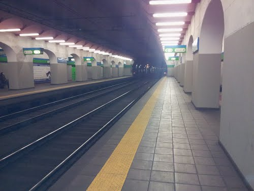 Milano Dateo Railway Station